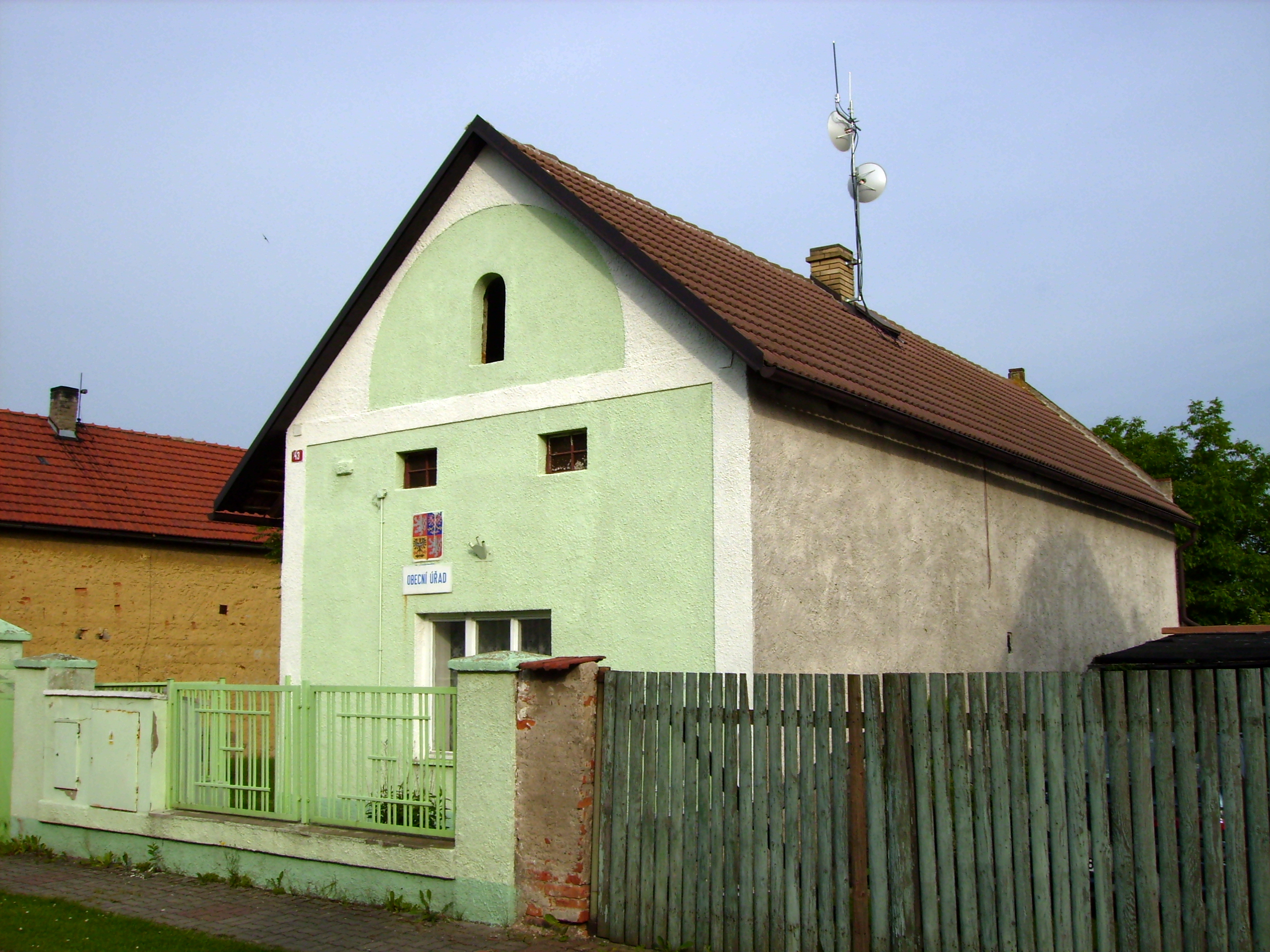 Building of local administration in Černíky, Nymburk District, Czech Republic